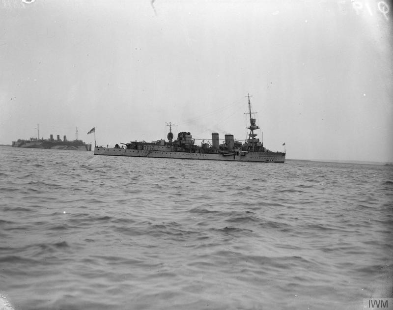 The British Naval Campaign in the Baltic, 1918-1919 Royal Navy light cruiser HMS CARADOC with PRINCESS MARGARET in the background at Libau (Liepaja). December 1918.